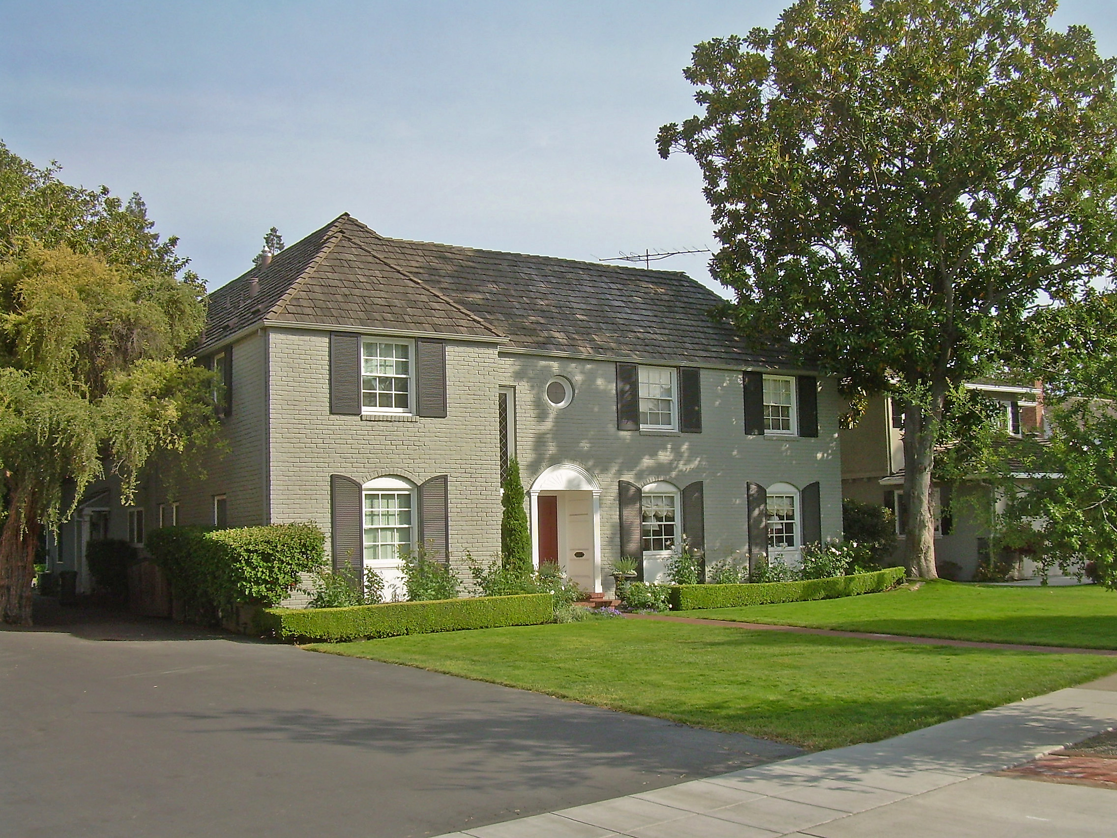 San Jose, California.